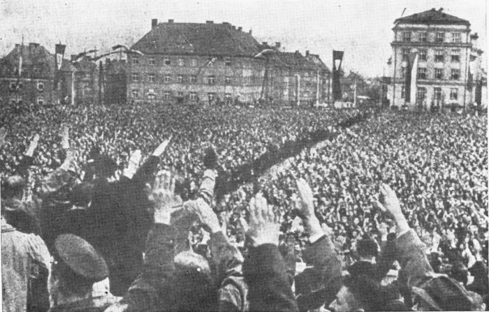 1. May 1938 in Liberec - demonstration Sudetendeutsche Partei